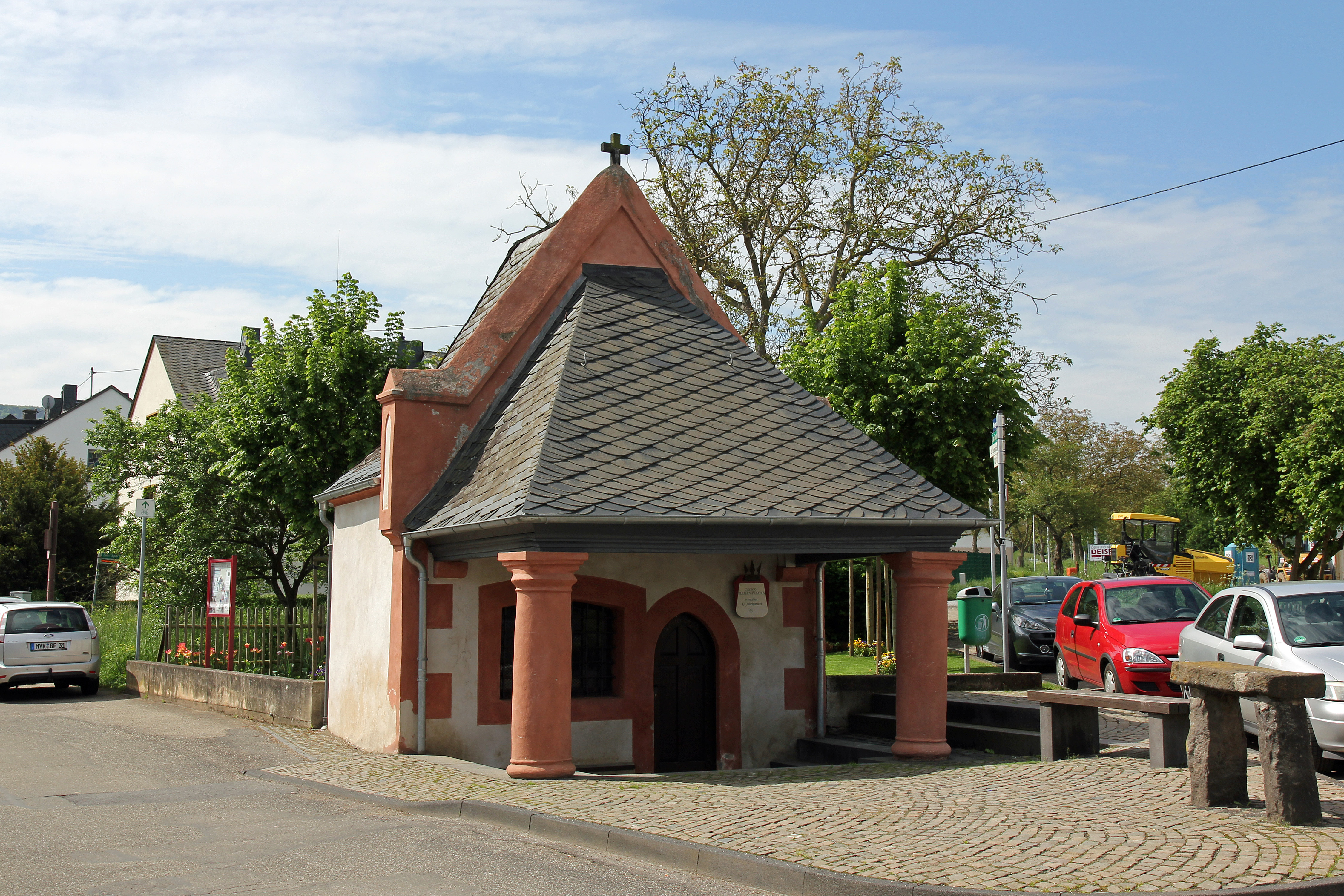 Großheiligenhäuschen in Koblenz